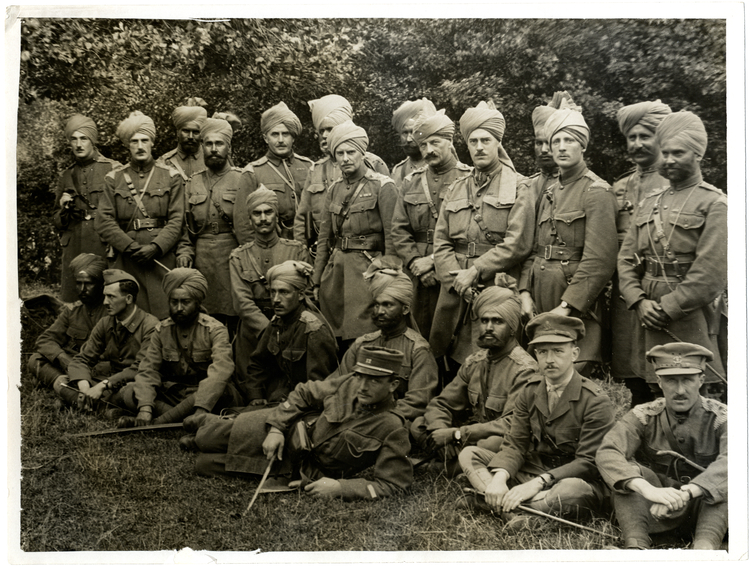 Officers of the 4th Cavalry [Neuf Berguin, France].